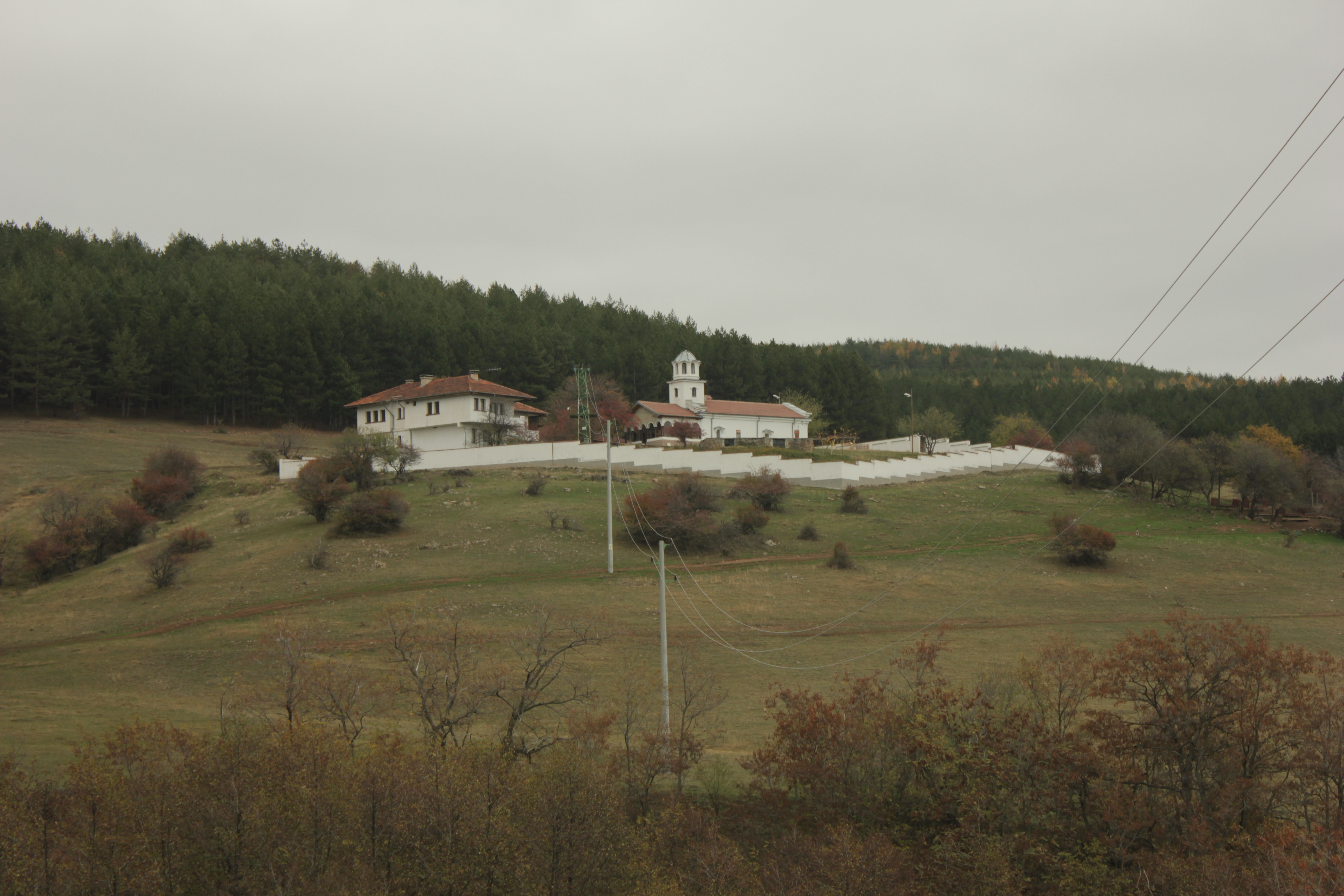 Theodore Stratelates Monastery of Balsha, Bulgaria